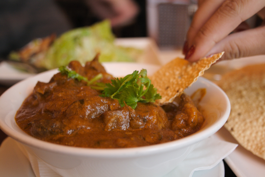 curry: Rogan Josh(Commercial Modification)Poppadam presence signifies non-kashmiri preparation